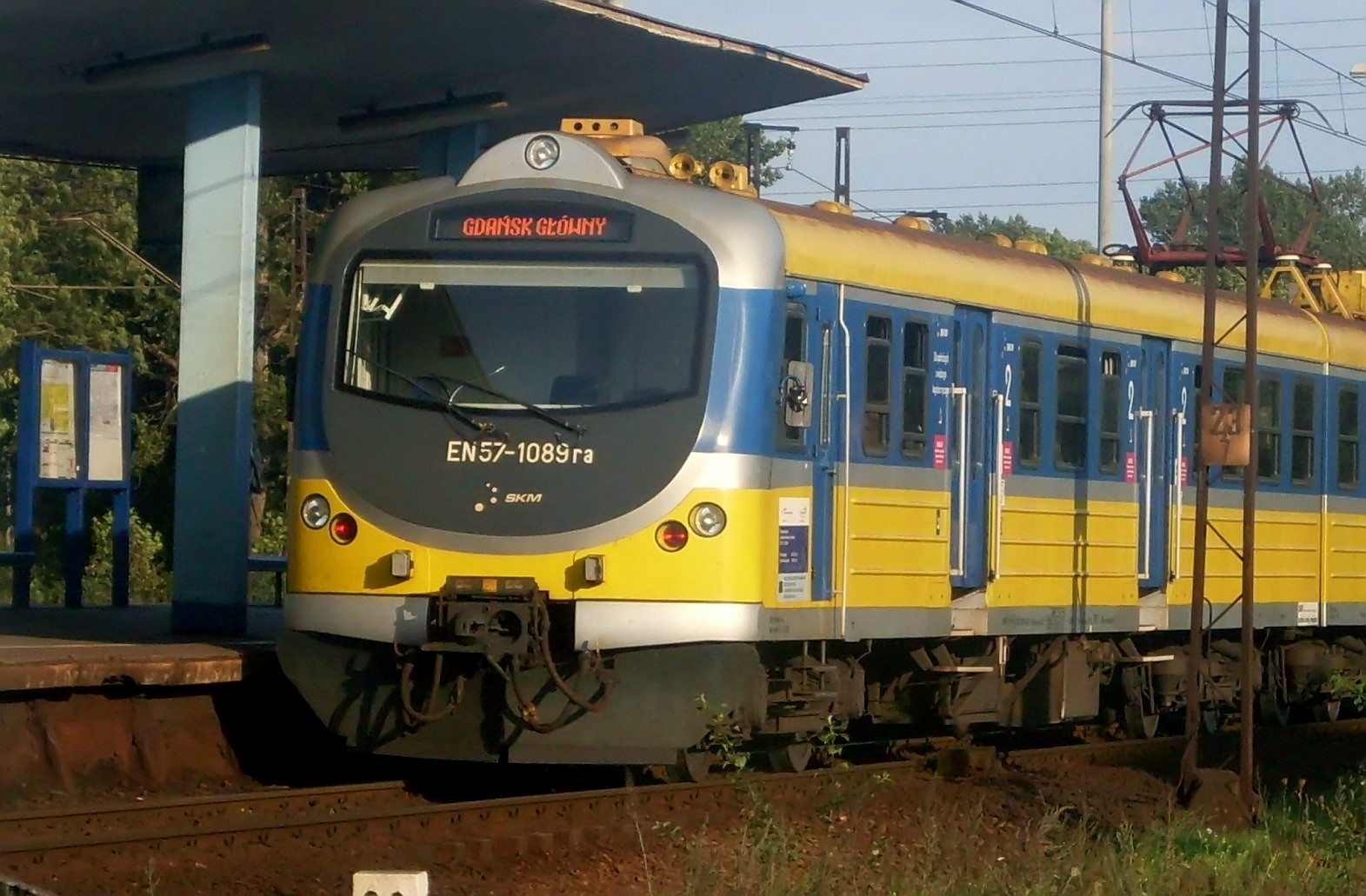 Multiple unit EN57-1089ra of Trójmiejska SKM.